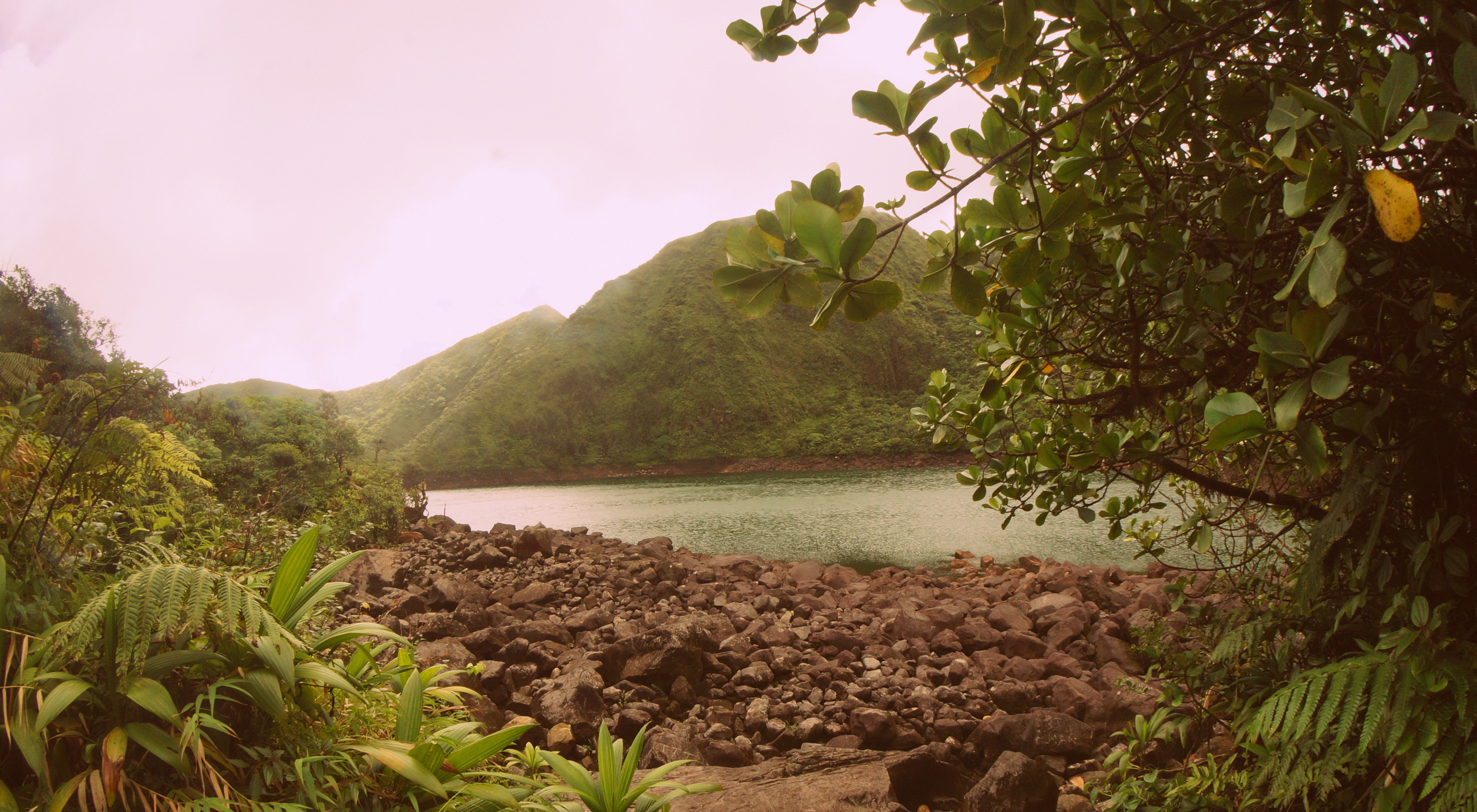 Crater lake high in the rainforest in Morne Trois Pitons National Park. The Boeri Lake is the highest lake in Dominica at an altitude of 2,850 ft. (869 m). More freely usable Dominica Travel Images.